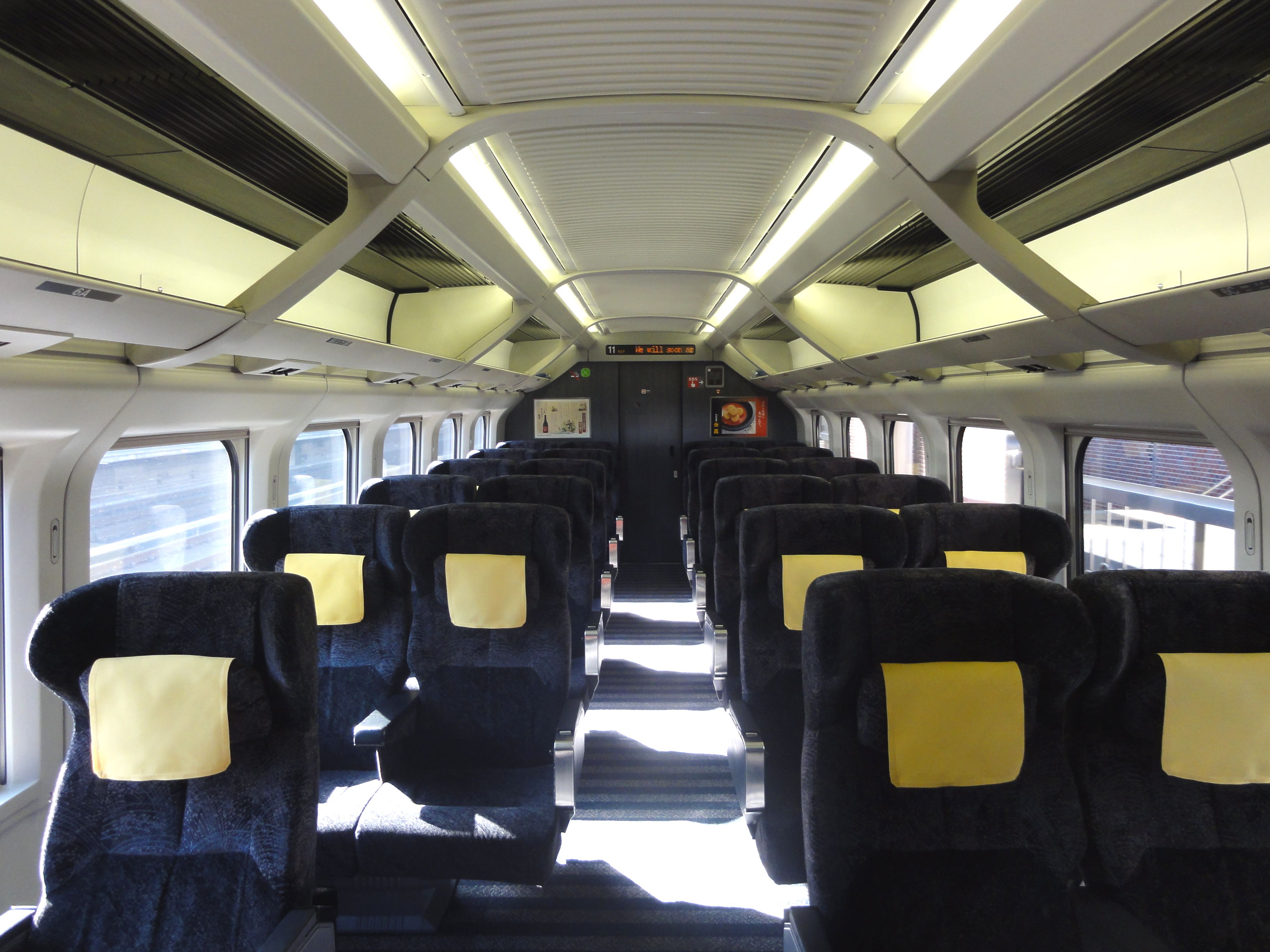 Interior of Akita Shinkansen E3 series Green car E311-5